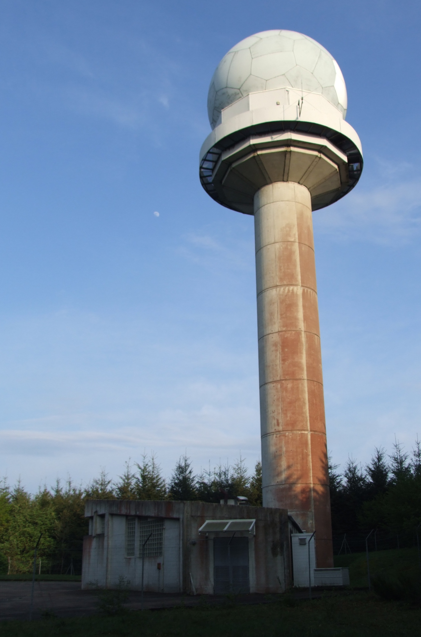 Burgundy, FRANCE